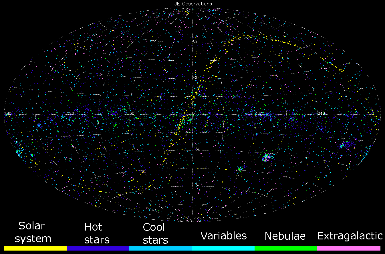 International Ultraviolet Explorer observations chart on the sky map